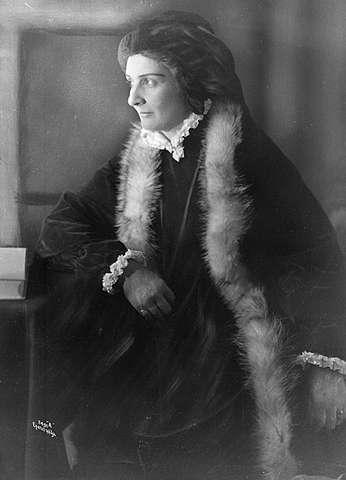 Norwegian actress Agnes Mowinckel in the part of Lady Inger of Oestraat.